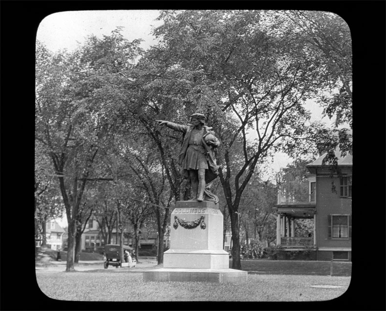 Image of black-and-white lantern slide of the Columbus statute in Columbus Square located in Providence, Rhode Island. From the Rhode Island State Archives. 1915 July 3